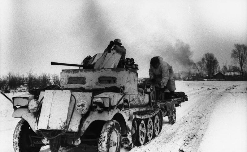 SdKfz 10/5 variant, with Flak 38 2 cm gun